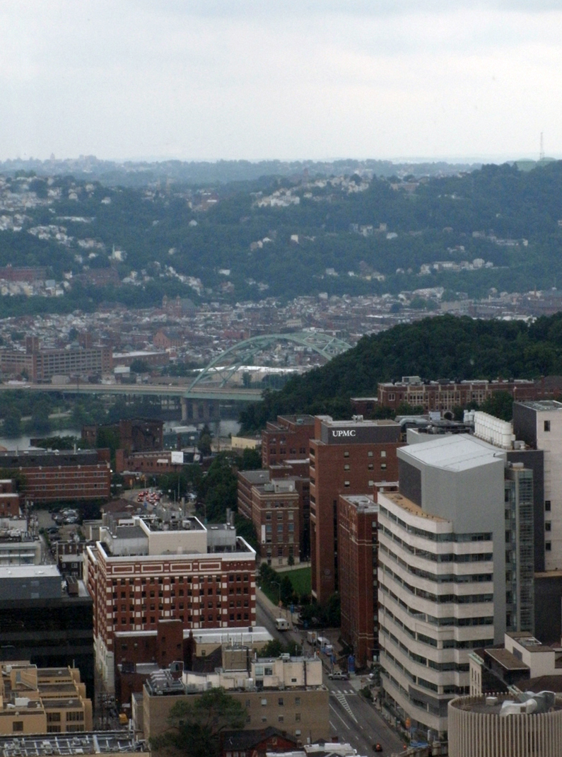 University of Pittsburgh, main campus in Oakland